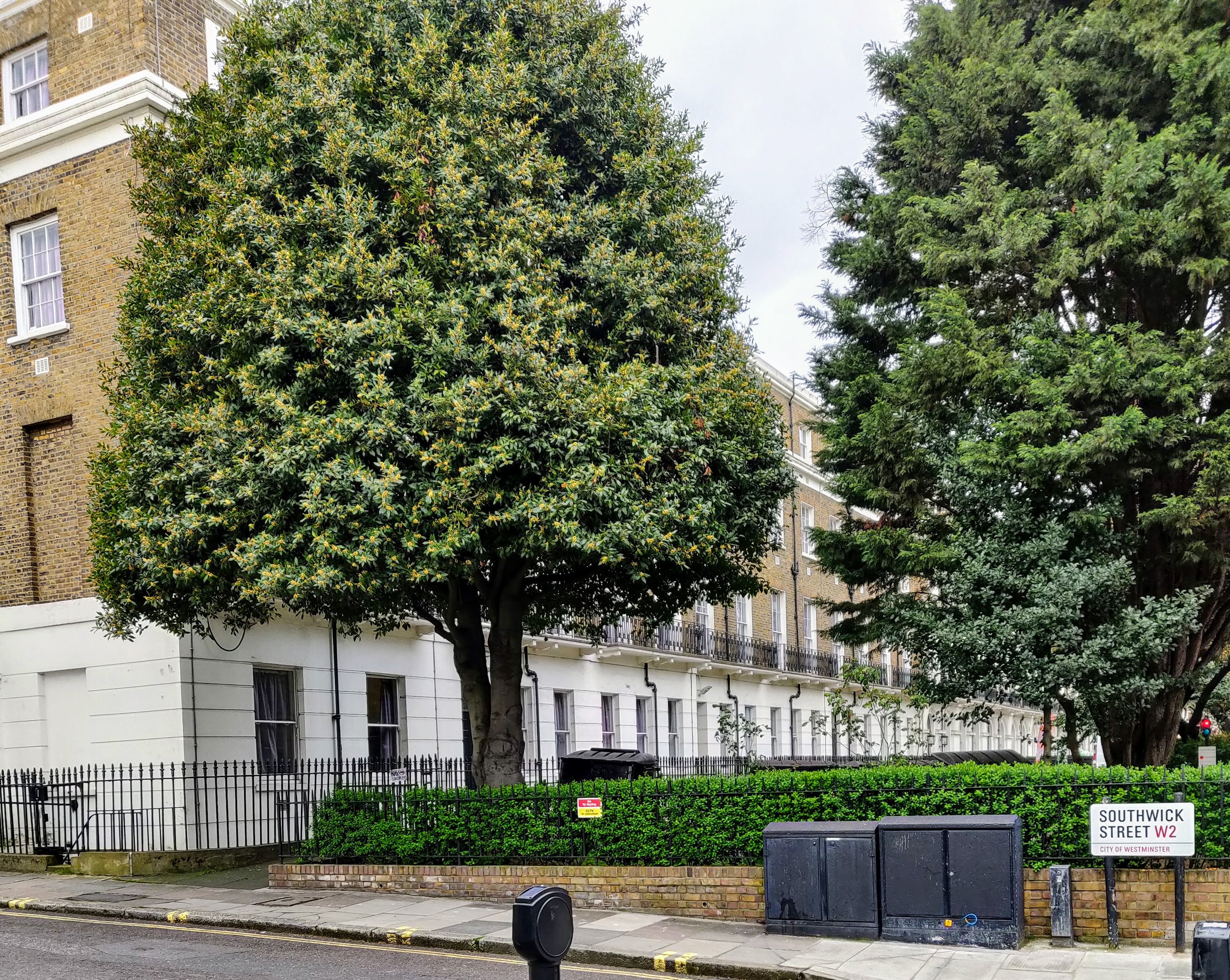 Wilson House is a hall of residence of Imperial College London, located along Sussex Gardens across Hyde Park in Paddington. The hall caters for well over 300 students, organised into houses with communal kitchen and toilet facilities, based on the original houses merged to formed the hall (as pictured). There is also a large modern annex in the back.